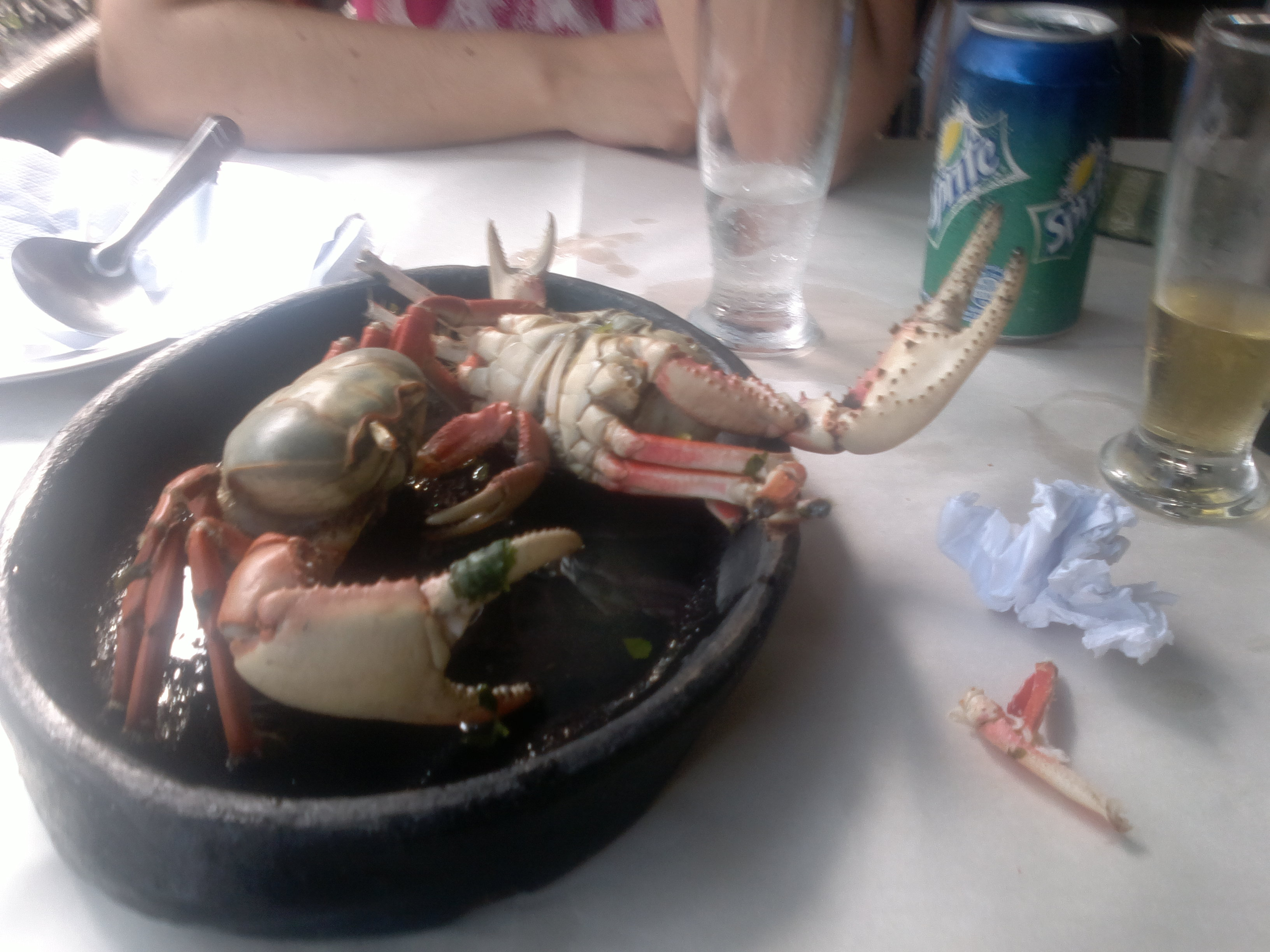 Cooked.Crab.1